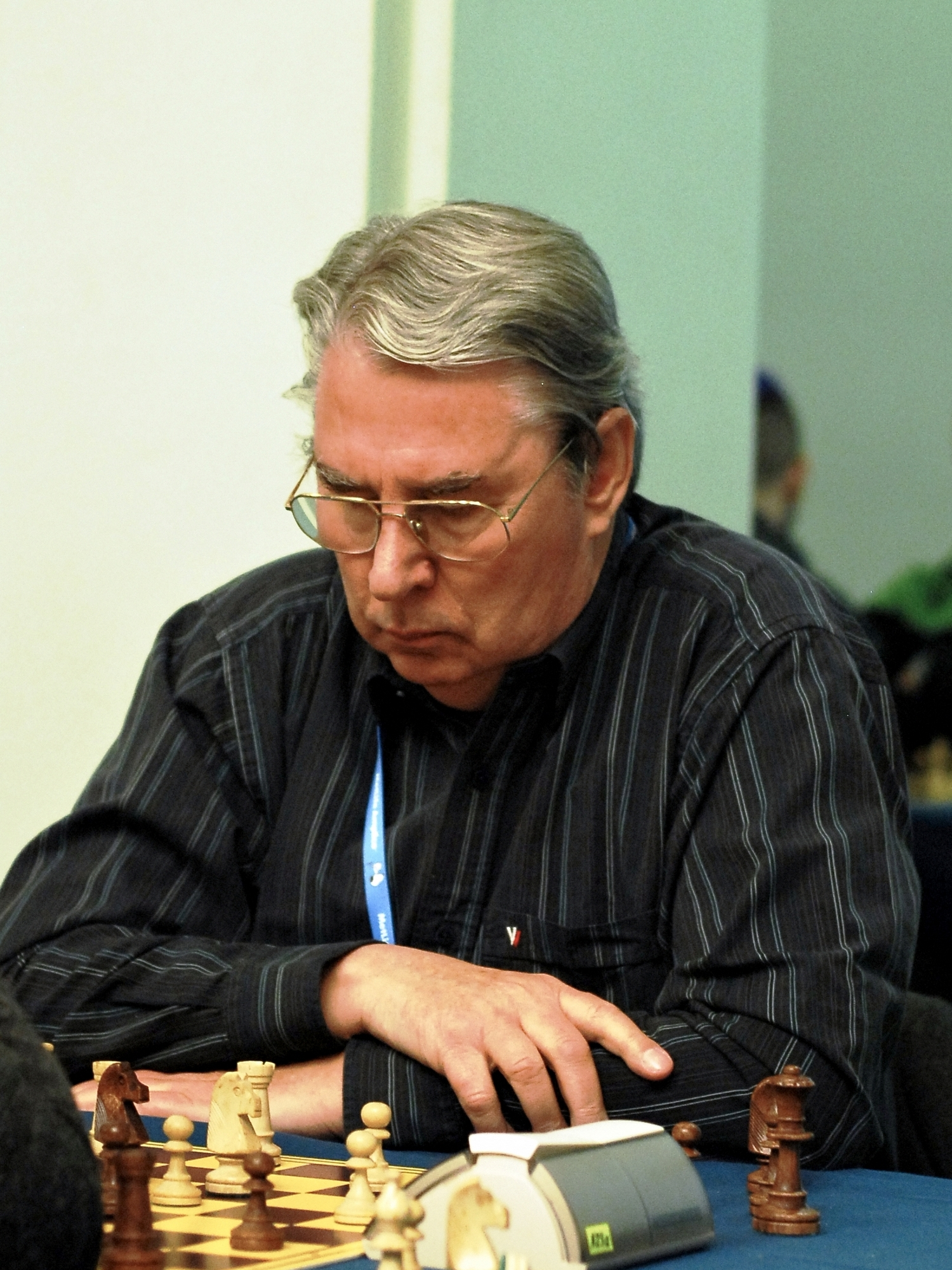 GM Włodzimierz Schmidt, European Rapid Chess Championship, Warsaw 2012.